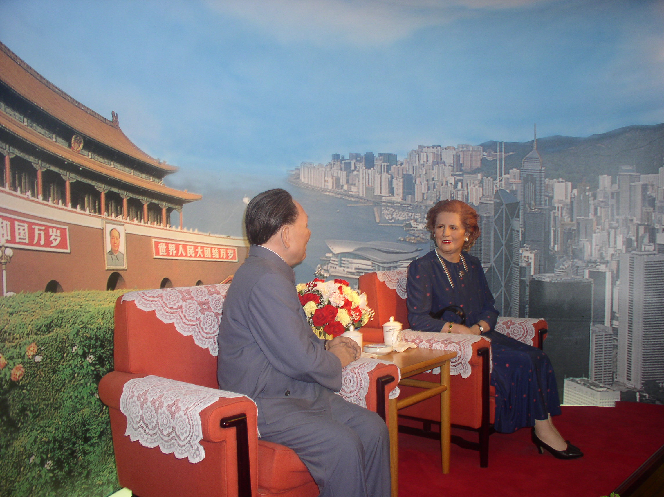 Reconstruction of the important meeting between Deng Xiaoping and Margaret Thatcher in Beijing on 24 September 1984 with talks about the future of Hong Kong - at the visitors platform of the Diwang Dasha in Shenzhen